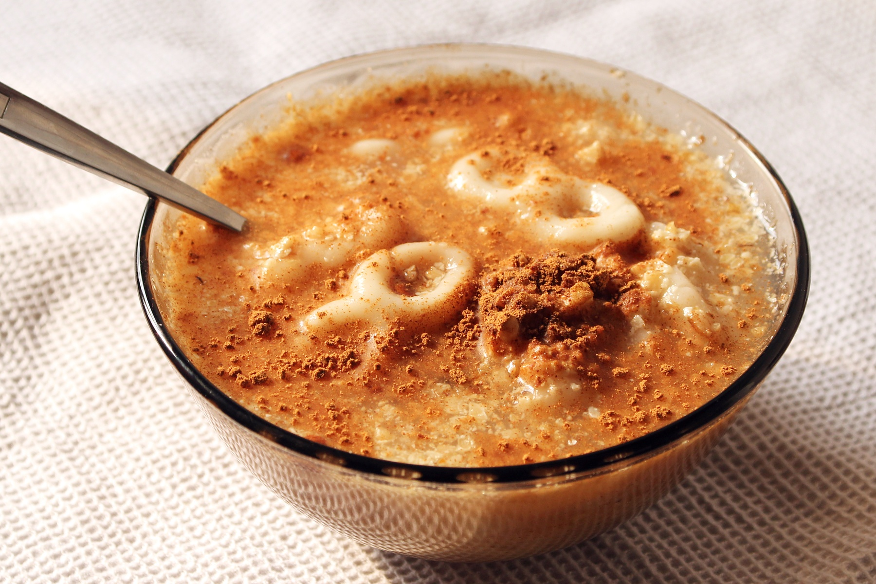 Mucenici, made in Wallachian styleRomână: Mucenici ca în Muntenia